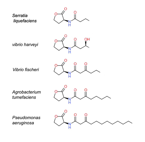 Signal molecules used by different bacteria for intra-species communication